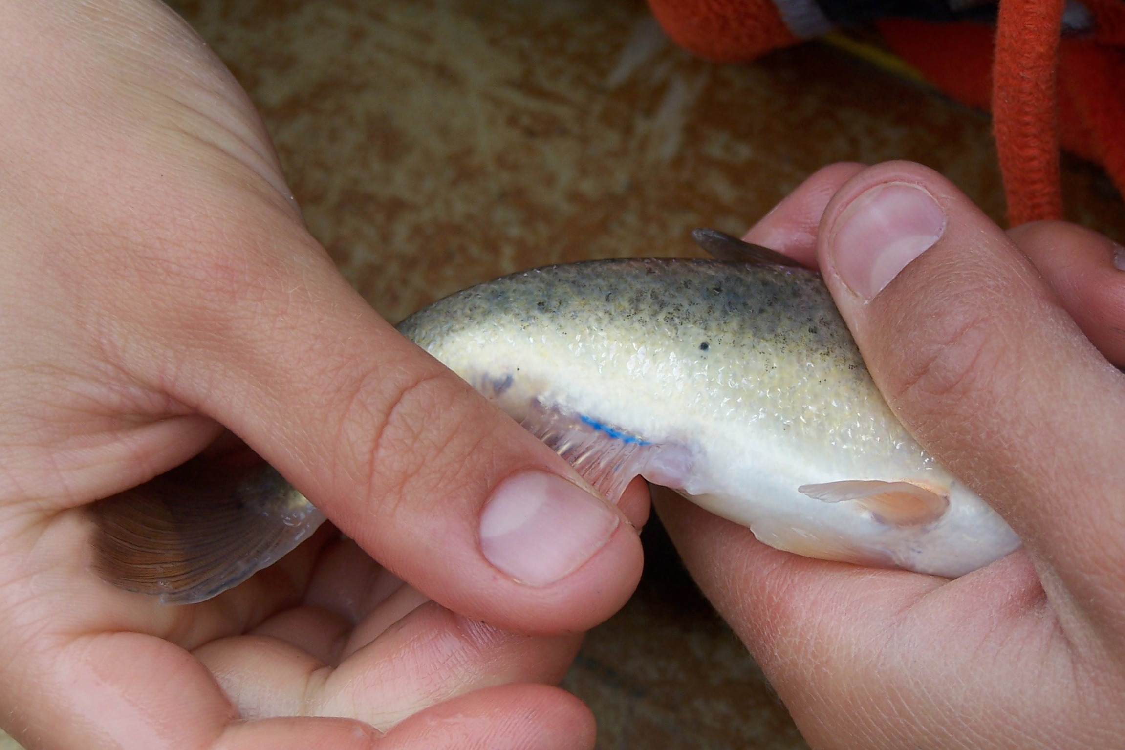 A blue visible implant elastomer tag (Northwest Marine Technologies) in the anal fin insertion of a southern leatherside chub.